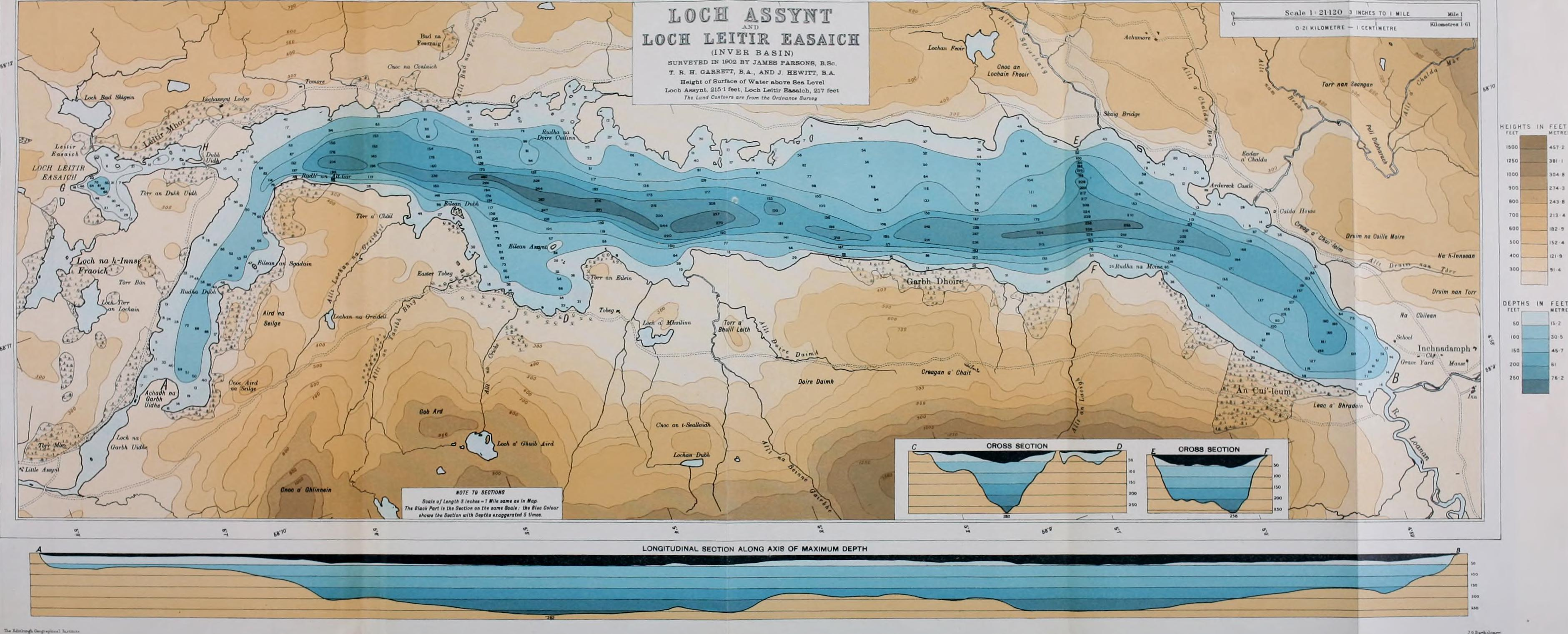 Title: Scottish geographical magazine Year: 1885 (1880s) Authors: Scottish Geographical Society Royal Scottish Geographical Society Subjects: Geography Publisher: Edinburgh, Royal Scottish Geographical Society Text Appearing Before Image: HEIGHTS IN FEET FEtT METRES 1500 457 2 :; .381 i 1000 ._ . i04 6 900 j 27* 3 800, j 243 8 213 4182-9152 4121 991-4 7C0fifin son 4-- MM DEPTHS IN FEET FEET, .METRES 15 2 305 50100150ZOO250 ! J G fartkolouun Bathymetrical Survey of the Fresh-water Lochs of Scotland LAURENCE PULLAR. FRSE Text Appearing After Image: COTLAN LONC LDDH J INVER B.RVEYED IK. Johnston,and J. Hewi Bathymetrical Survey of the Fresh-water Lochs of Scotland